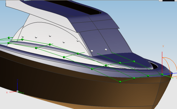 Concept design created in NX (Unigraphics). (Freehand curve/surface, not based on any real boat) Shows NURBS surface poles and trimmed surface boundary edges.